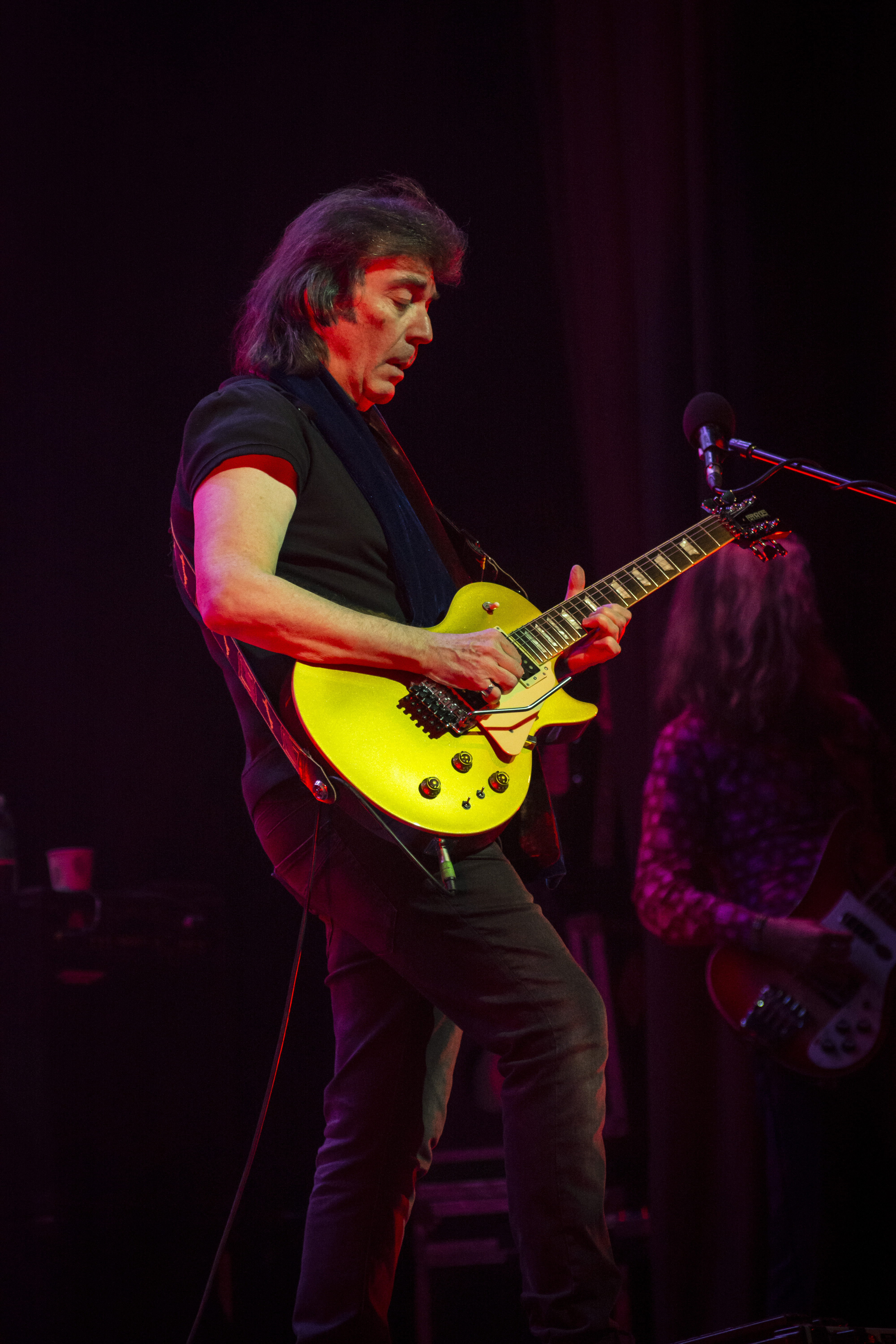 Steve Hackett at Talking Stick Resort on 4.2.2016 during his Acolyte to Wolflight with Genesis Revisited - The Total Experience Tour